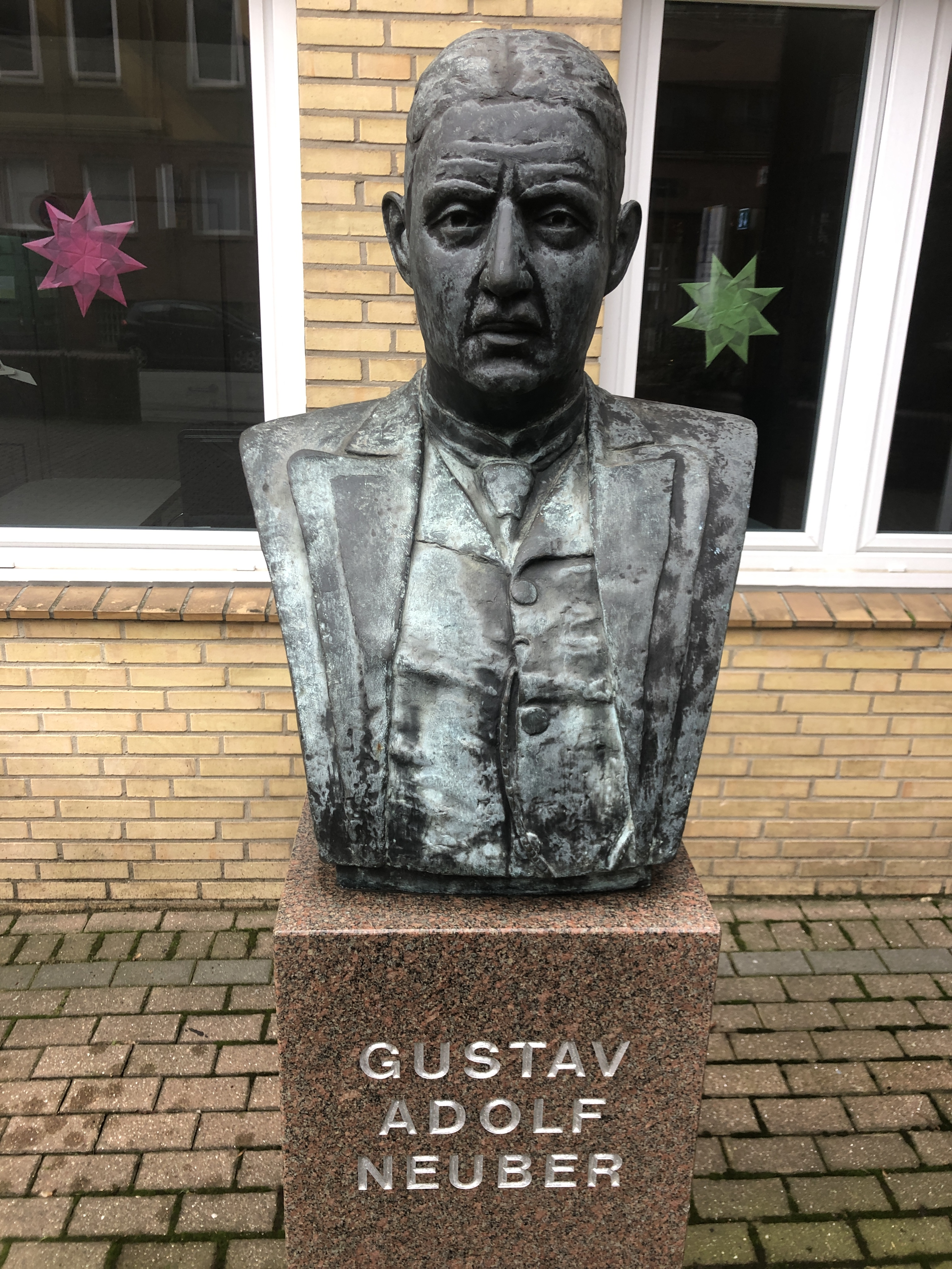 Bust of Gustav Adolf Neuber in front of the Sankt Elisabeth hospital in Kiel